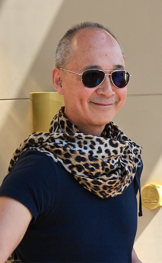 Toronto International Film Festival 2009. Director.